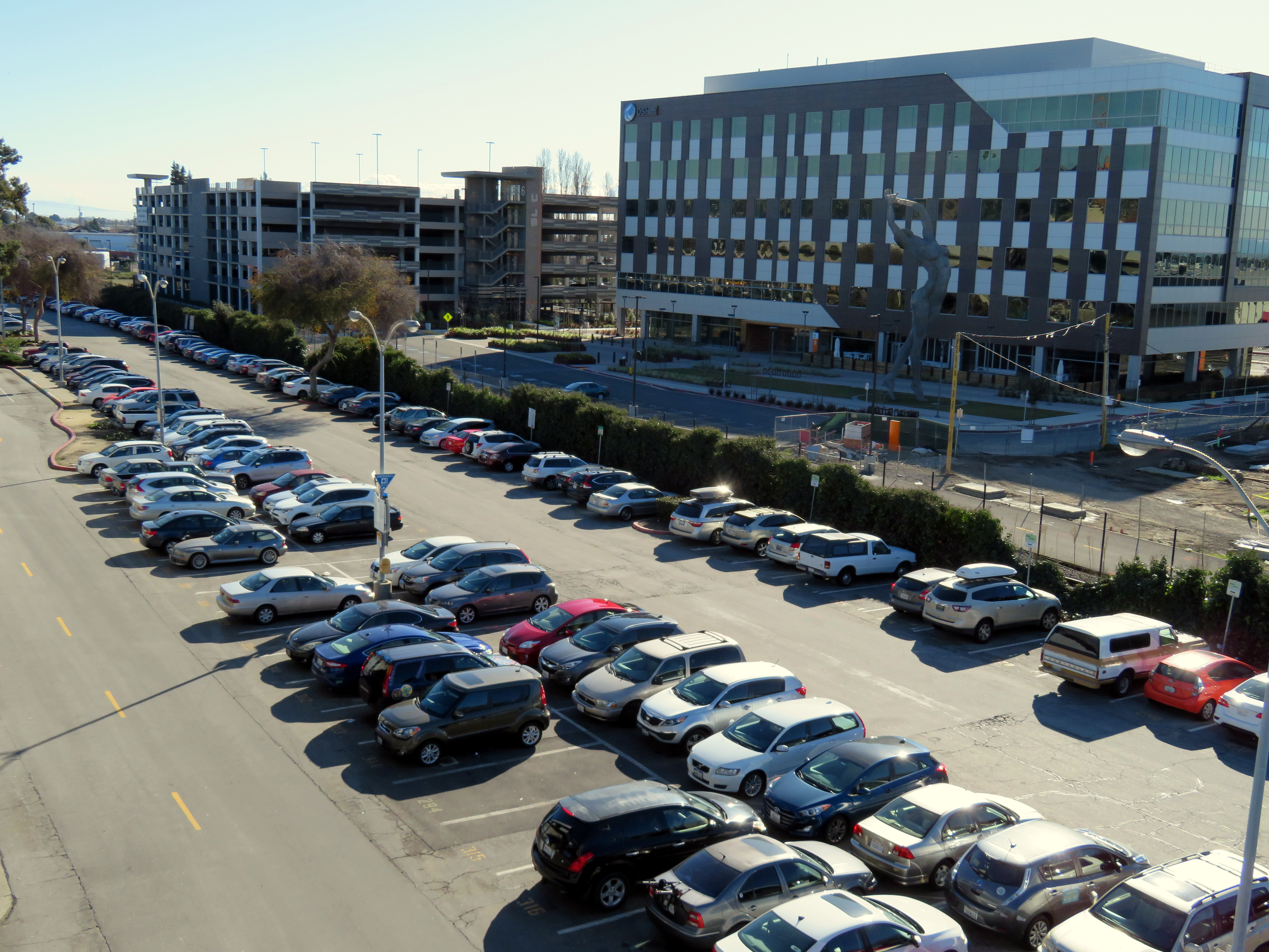 BART parking lot and private parking garage at San Leandro station in January 2018